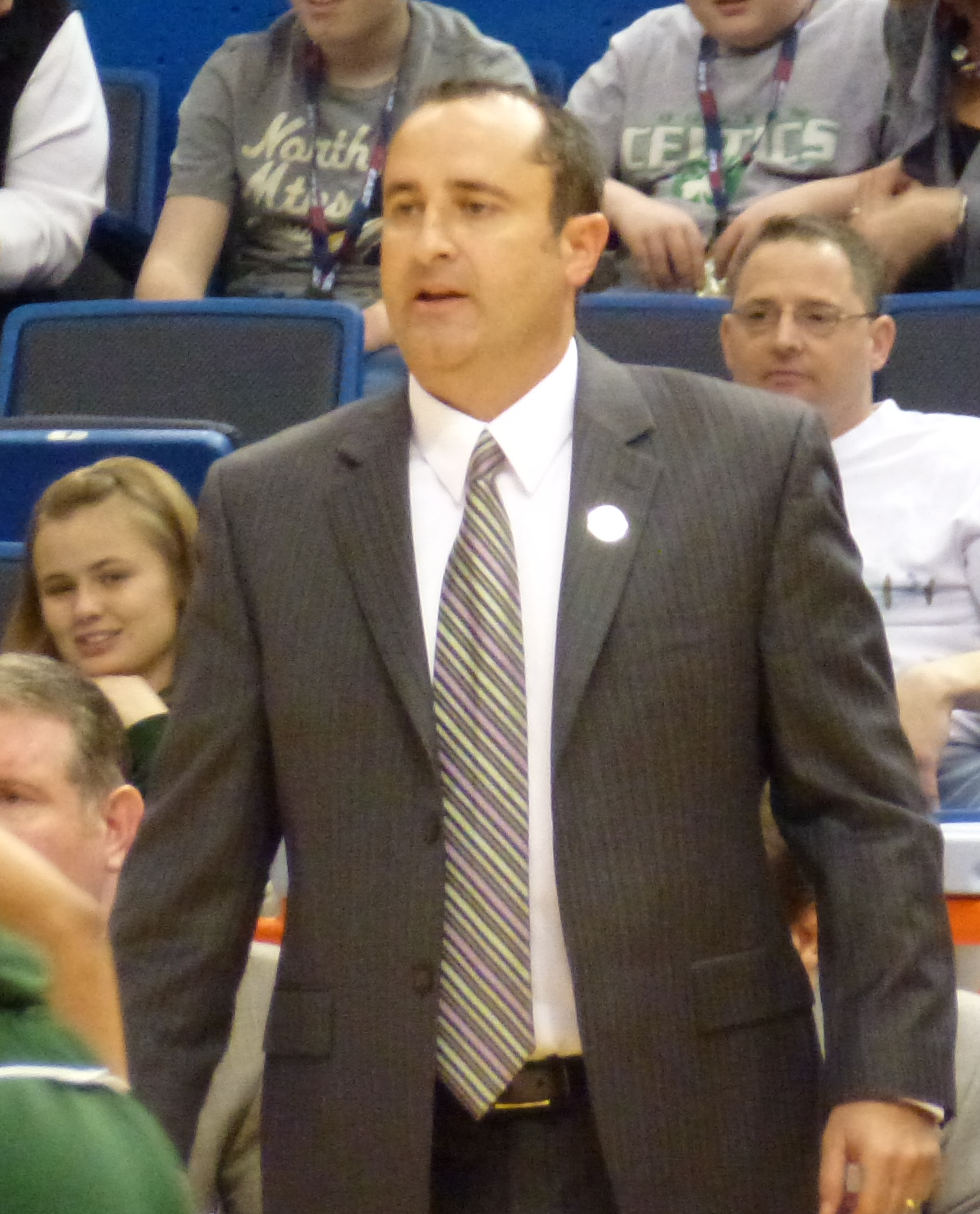 Jose Fernandez, coach of the University of South Florida women's basketball team. Taken at the Big East Tournament in 2012.